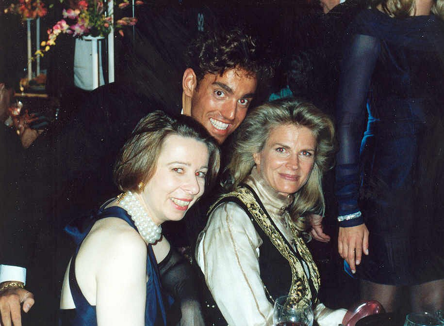 Jim Turilli poses with Murphy Brown creator Diane English and Candice Bergen at the Governor's Ball after the 43rd Annual Emmy Awards, 8/25/91 - Permission granted to copy, publish, broadcast or post but please credit "photo by Alan Light" if you can